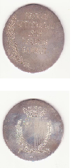 Government of Malta Literary Prize given to Frans Sammut in 1995 for Il-Holma Maltija